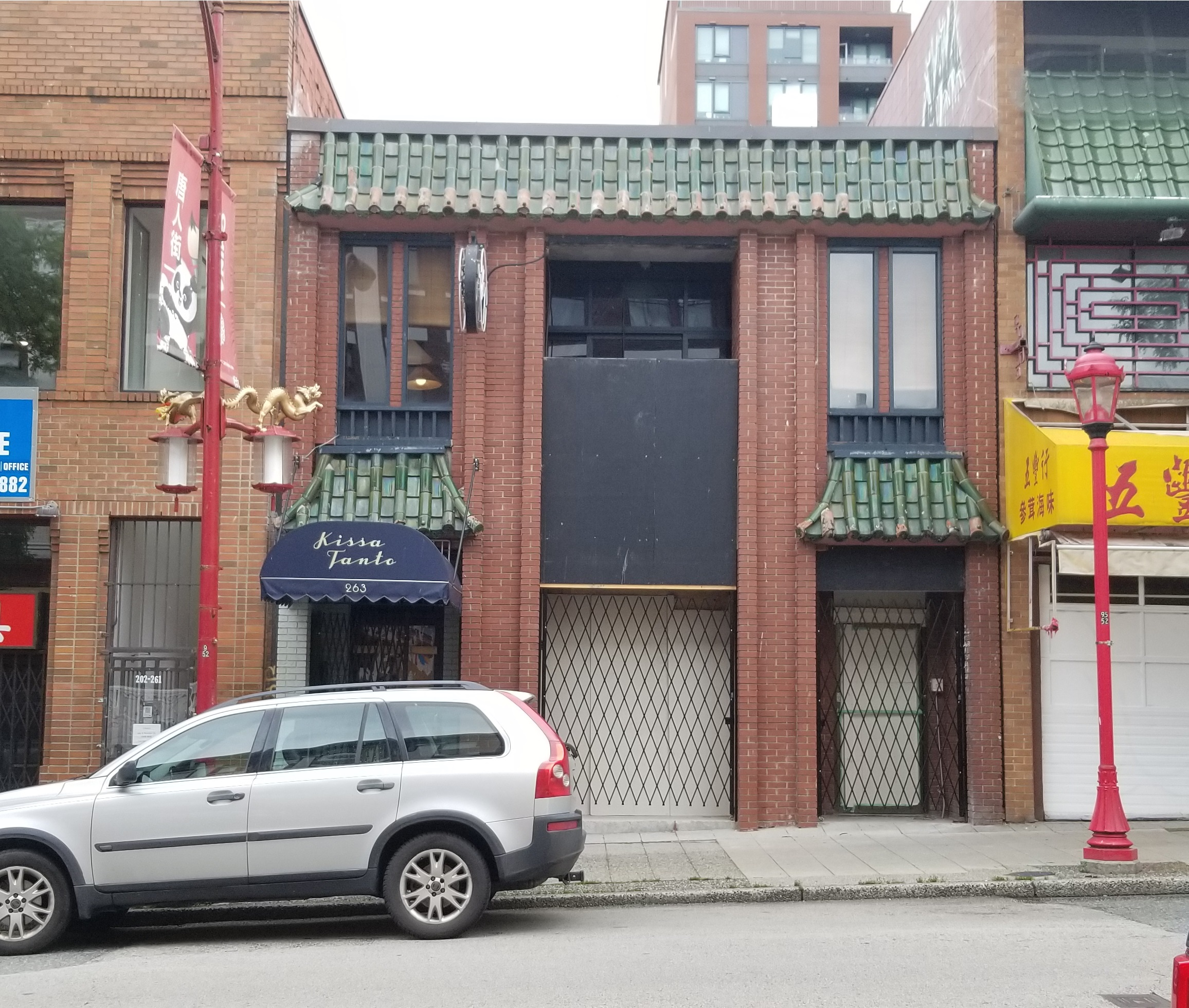 Exterior of Kissa Tanto restaurant in Vancouver's Chinatown, showing original red brick exterior and jade-colored roofing tiles. Restaurant awning is visible center left above the vehicle.